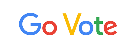 Google "Go Vote" Doodle